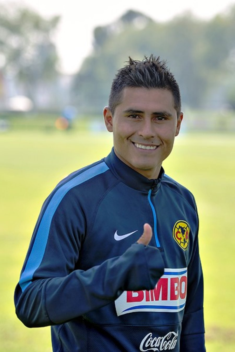 Osvaldito en America